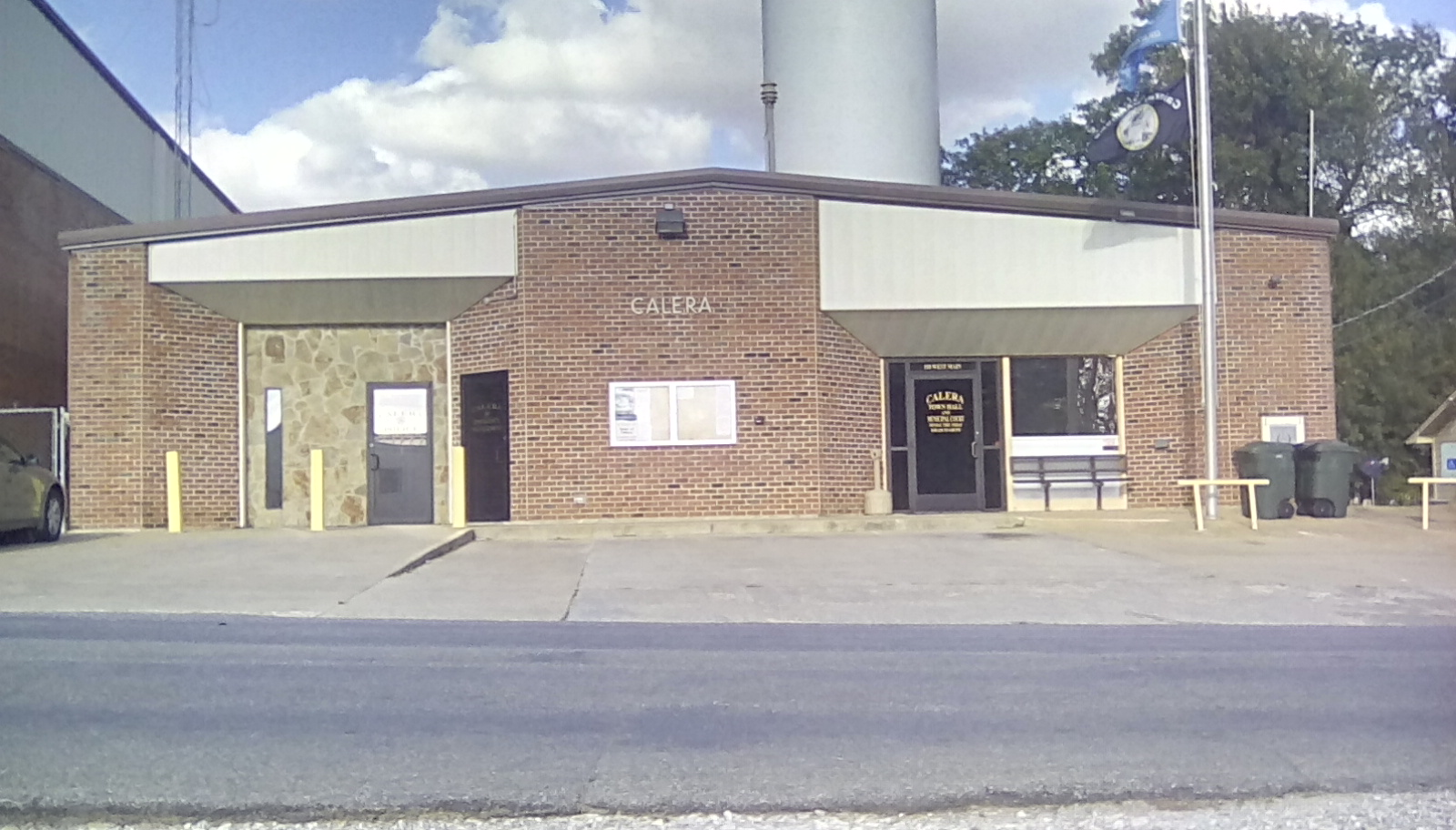 Front view of Calera, Oklahoma's City Hall. In the picture, you can see the Town Hall itself, along with the Emergency Management Office and the Calera Police Department Office.